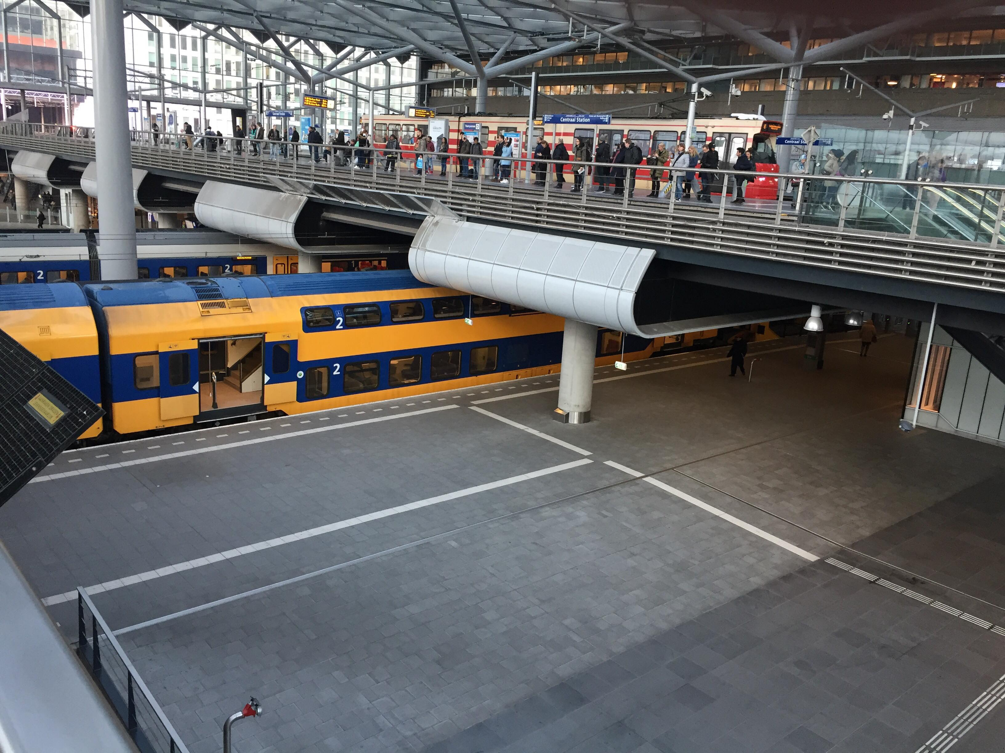 Railway station Den Haag Central